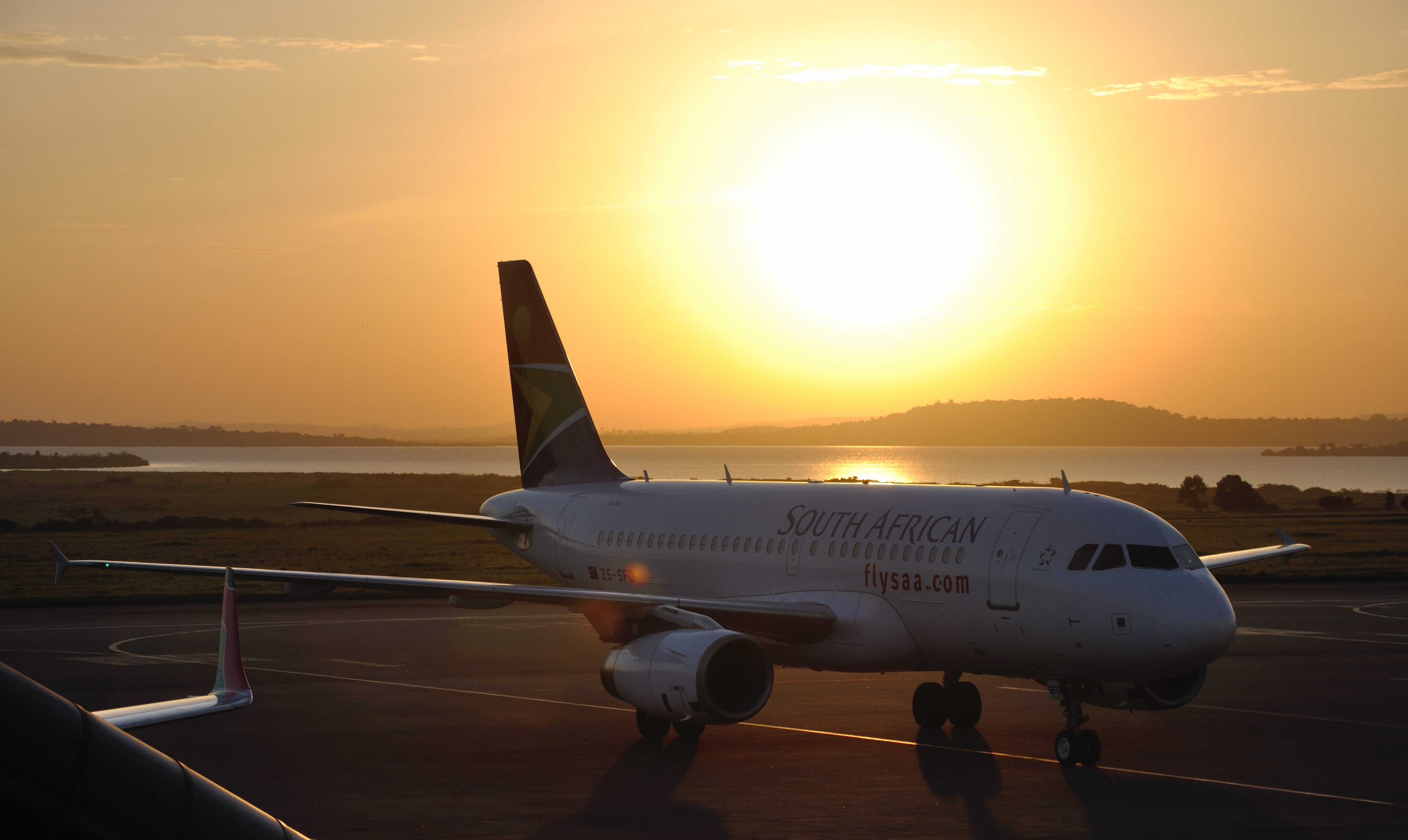 Uganda, South African Airbus A319 ZS-SFD at Entebbe International Airport